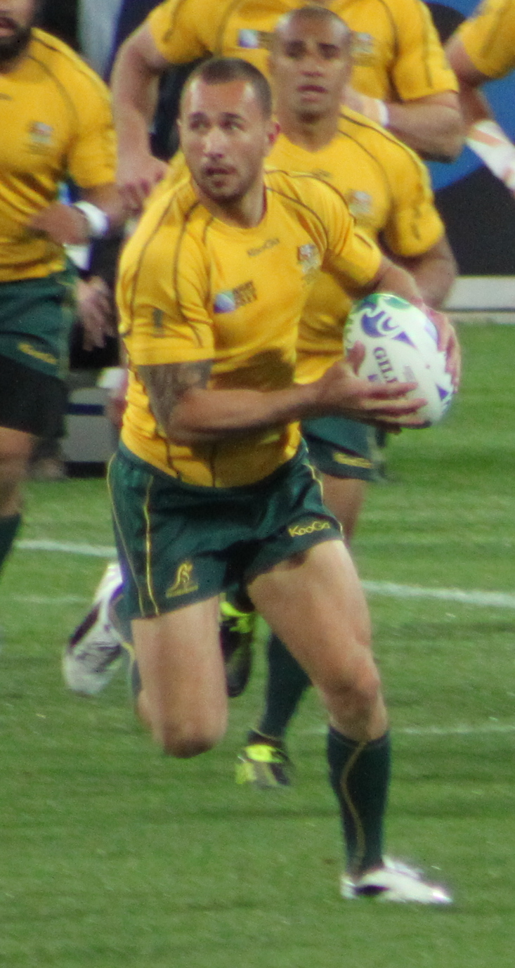 Australian rugby union player Quade Cooper during World Cup match against USA.